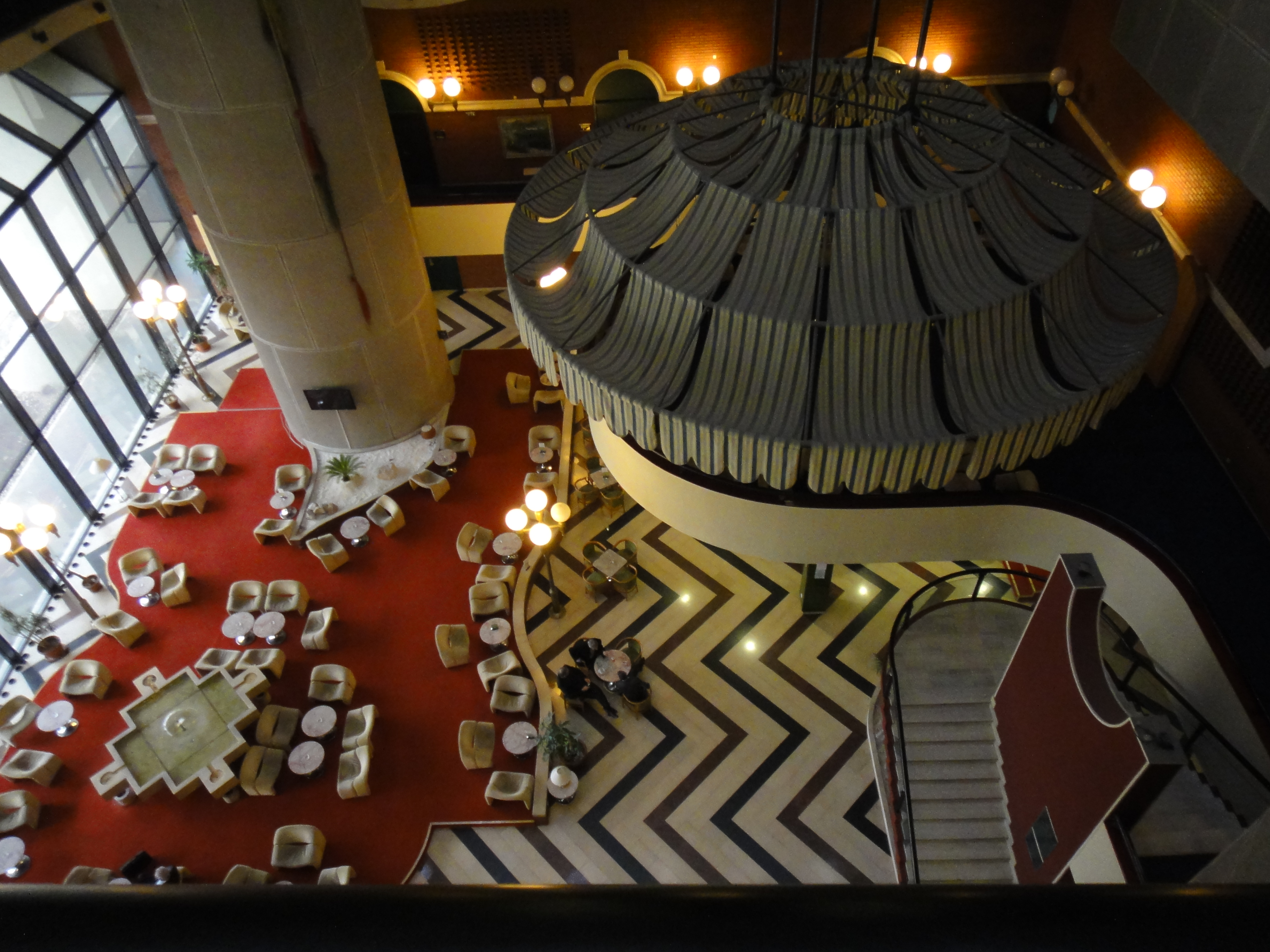 Former Holiday Inn Hotel Sarajevo, View of Hotel Lobby, taken in April 2013 from 3rd floor gallery